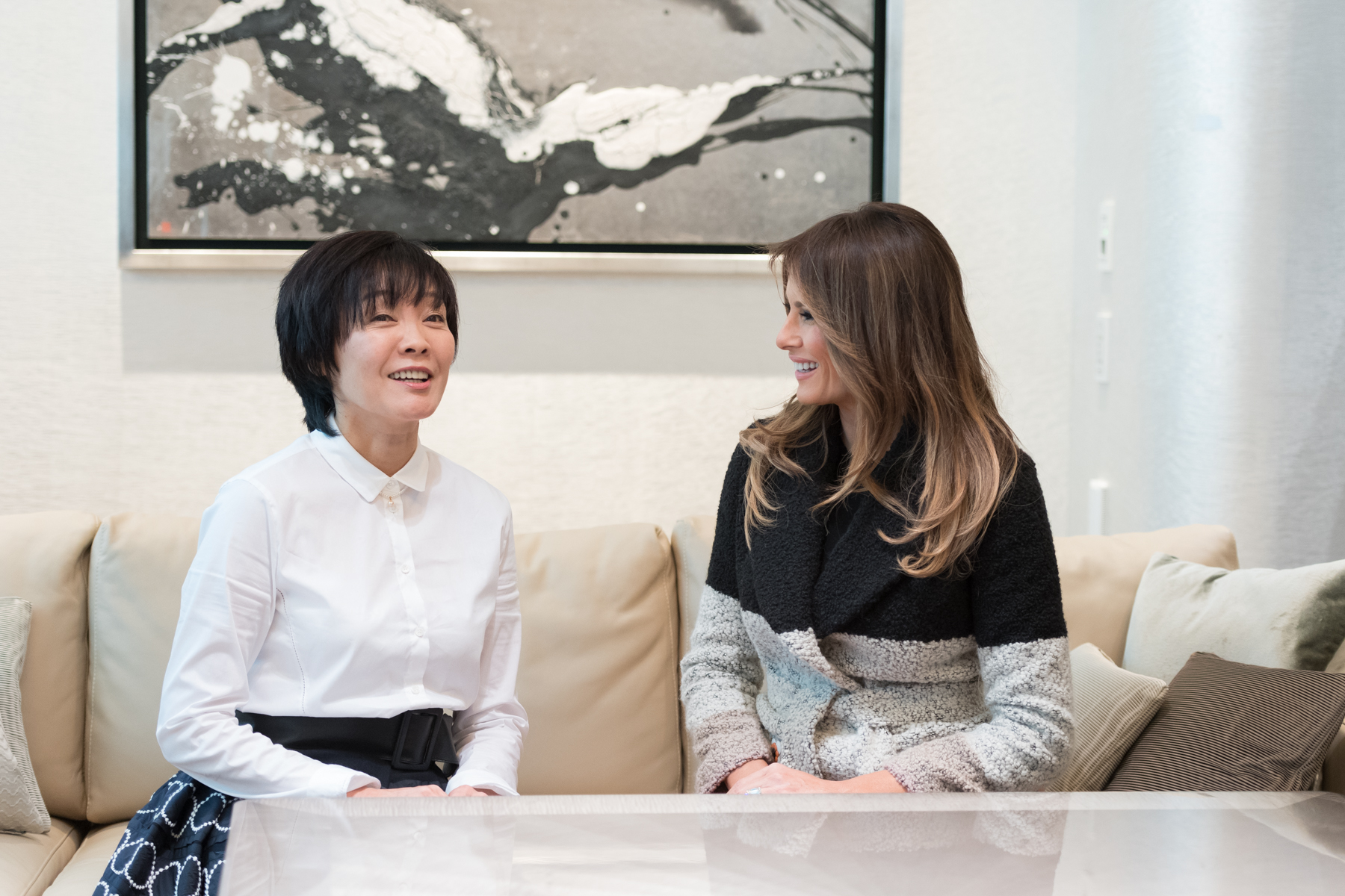 First Lady of Japan Akie Abe and FLOTUS Melania Trump talking to each other in Tokyo.